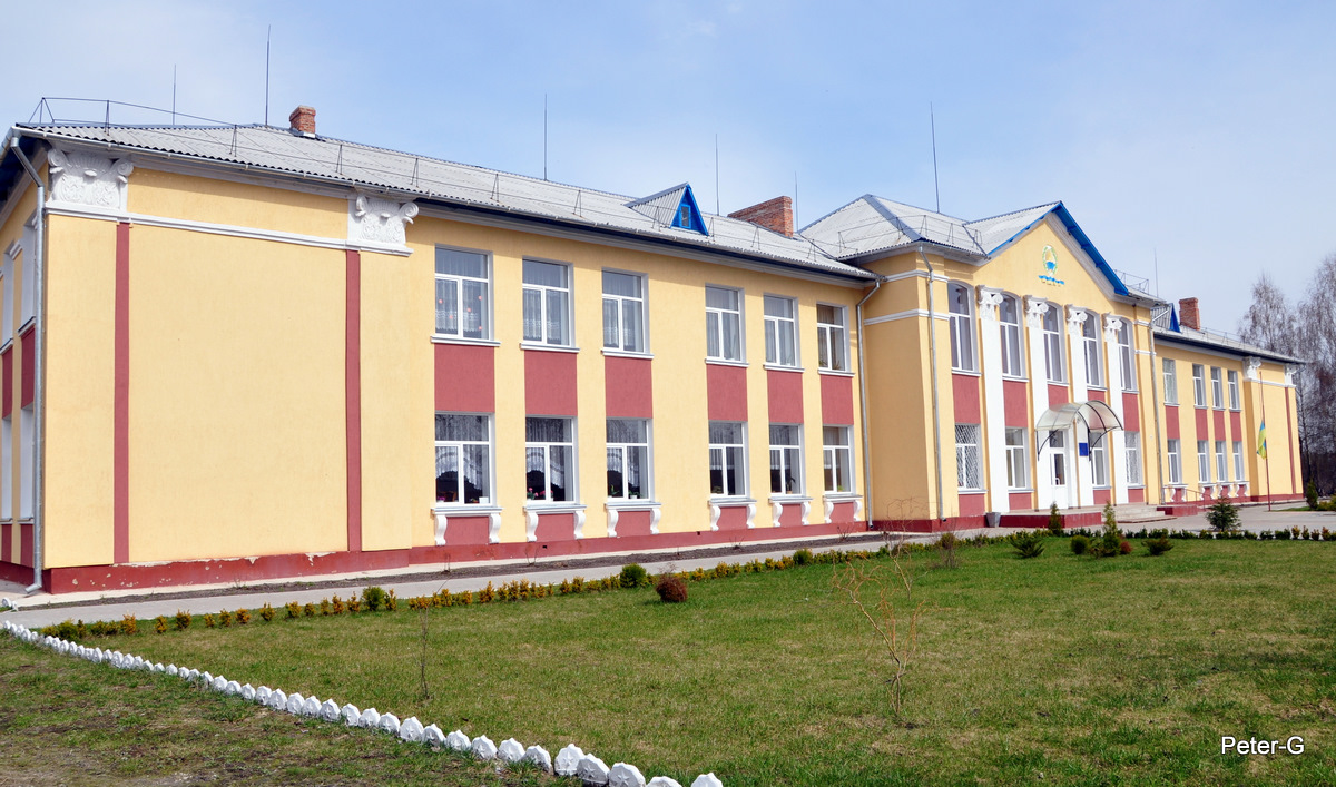 school in Lubytiw (Volyn', Ukraine)